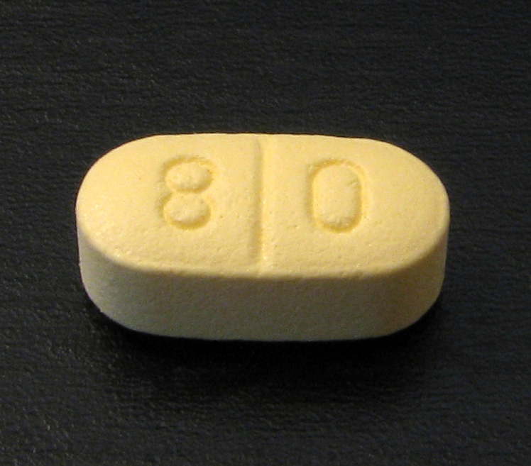 A 15mg tablet of generic mirtazapine